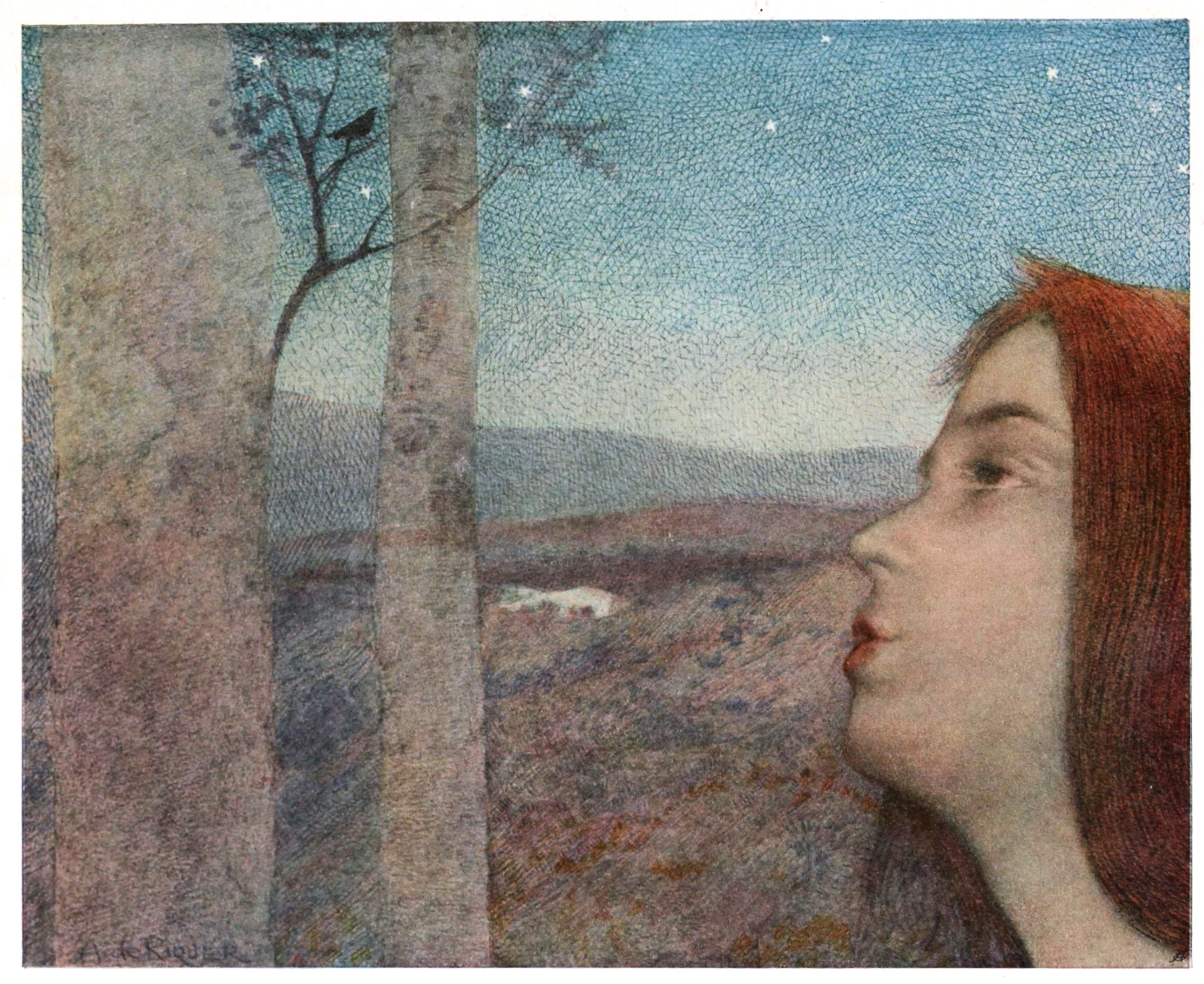 Appel à l’oiseau (The Bird Call) by Alexandre de Riquer